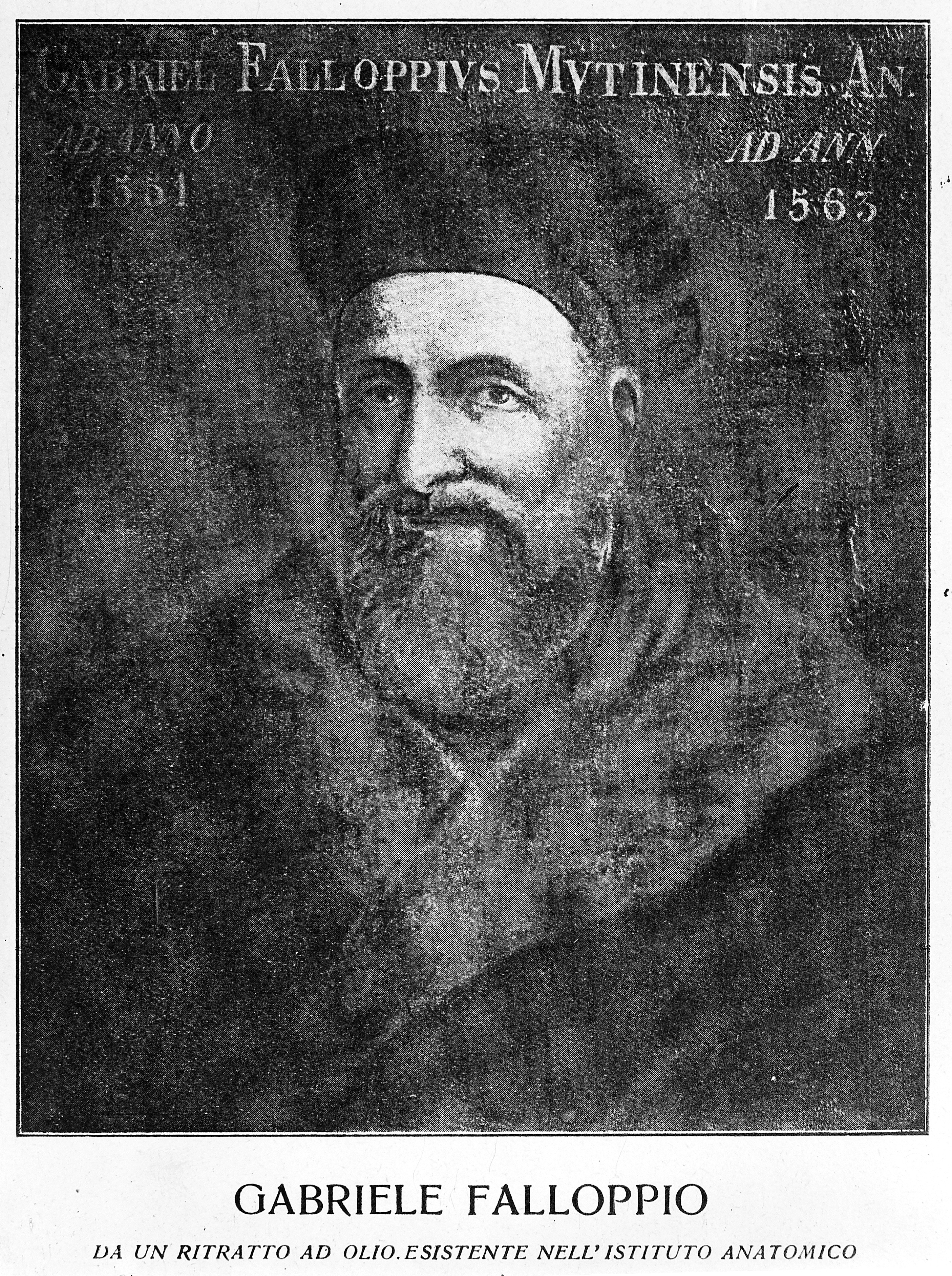 Portrait of Gabriele Fallopius (Falloppio) (1523-1562), pupil of Vesalius and great anatomist in his own right. From a portrait in the Anatomical Institute, Padua Wellcome Images Keywords: Gabriel Fallopius; anatomist, 17th century